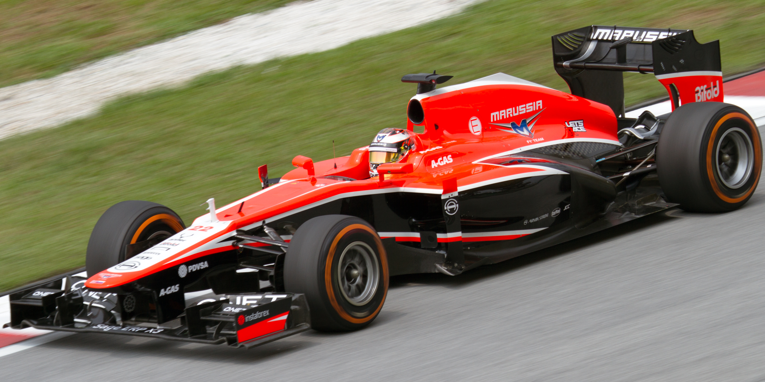 Formula One 2013 Rd.2 Malaysian GP: Jules Bianchi (Marussia) during the second practice session on Friday.